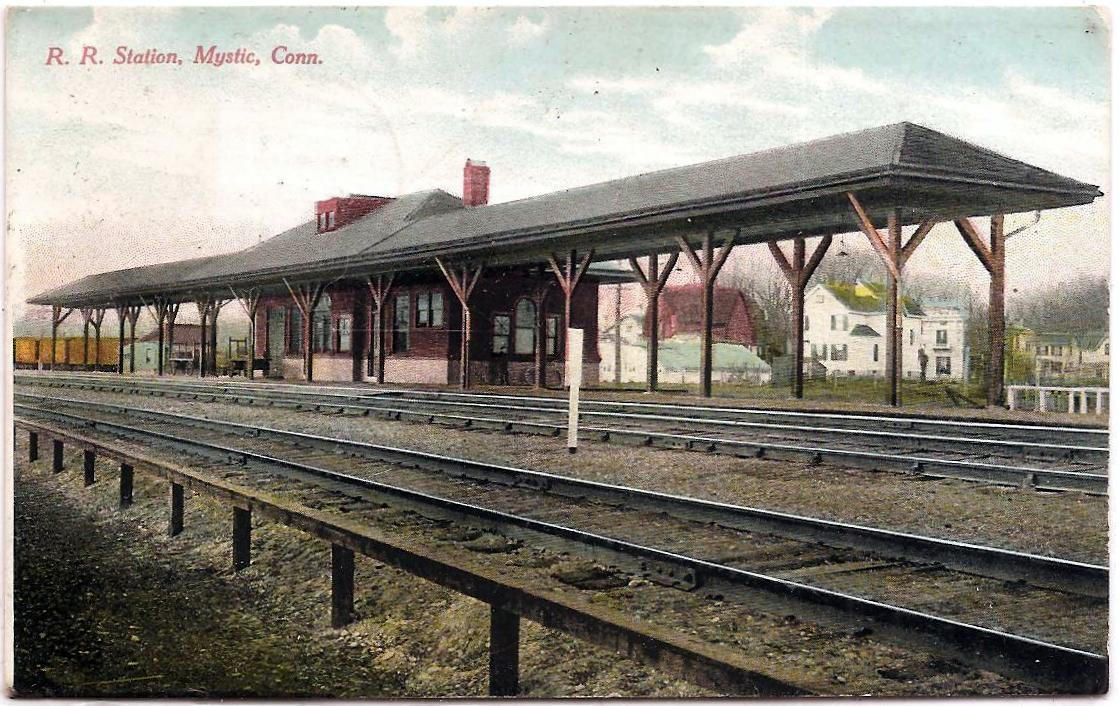 1910 divided back postcard of Mystic station